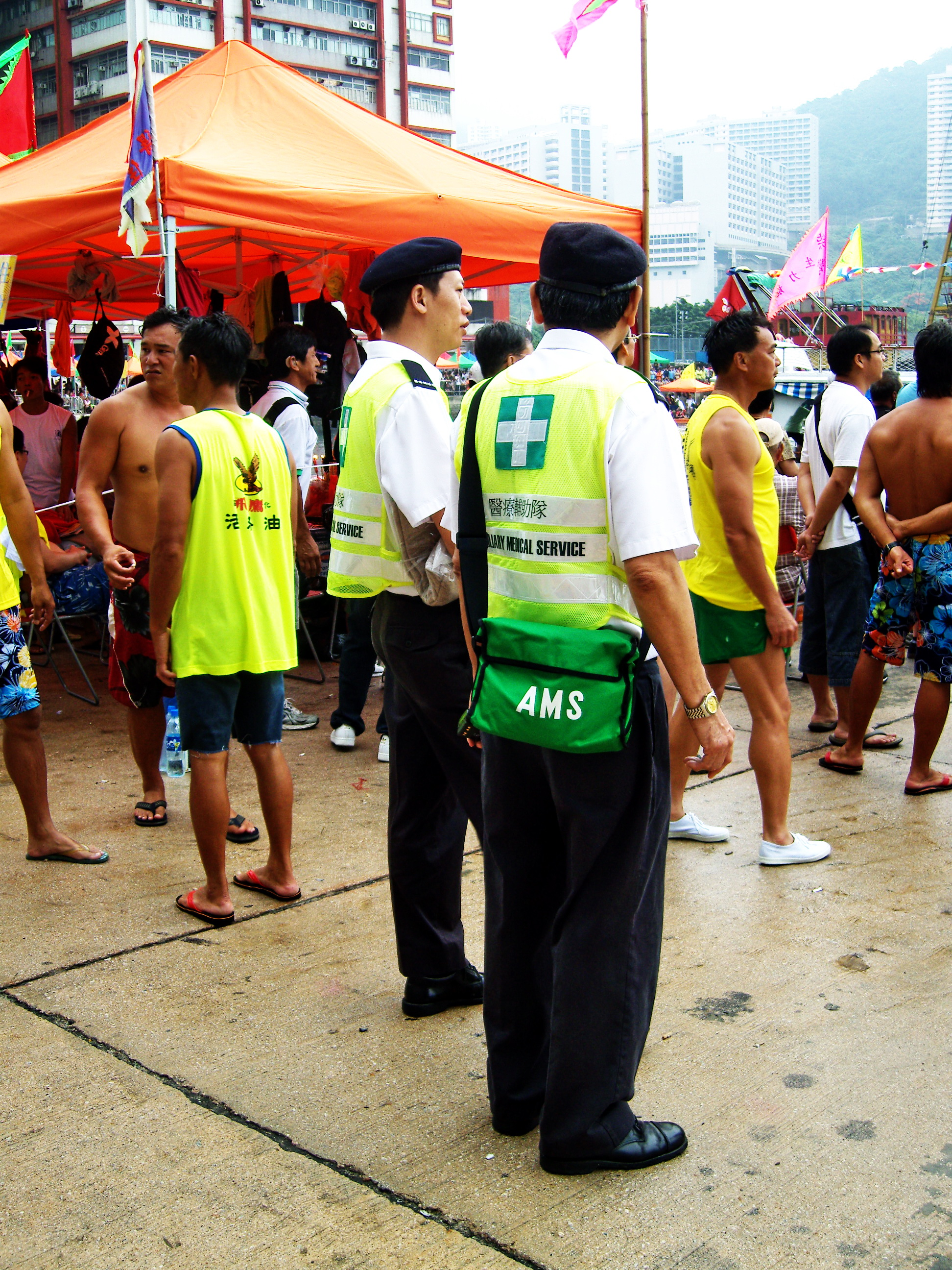 Eastern District Dragon Boat Race held in Wan Chai, Hong Kong.